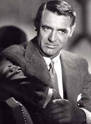 Publicity photo of Cary Grant for Indiscreet (1958).